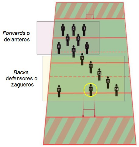 Rugby posiciones. Fullback